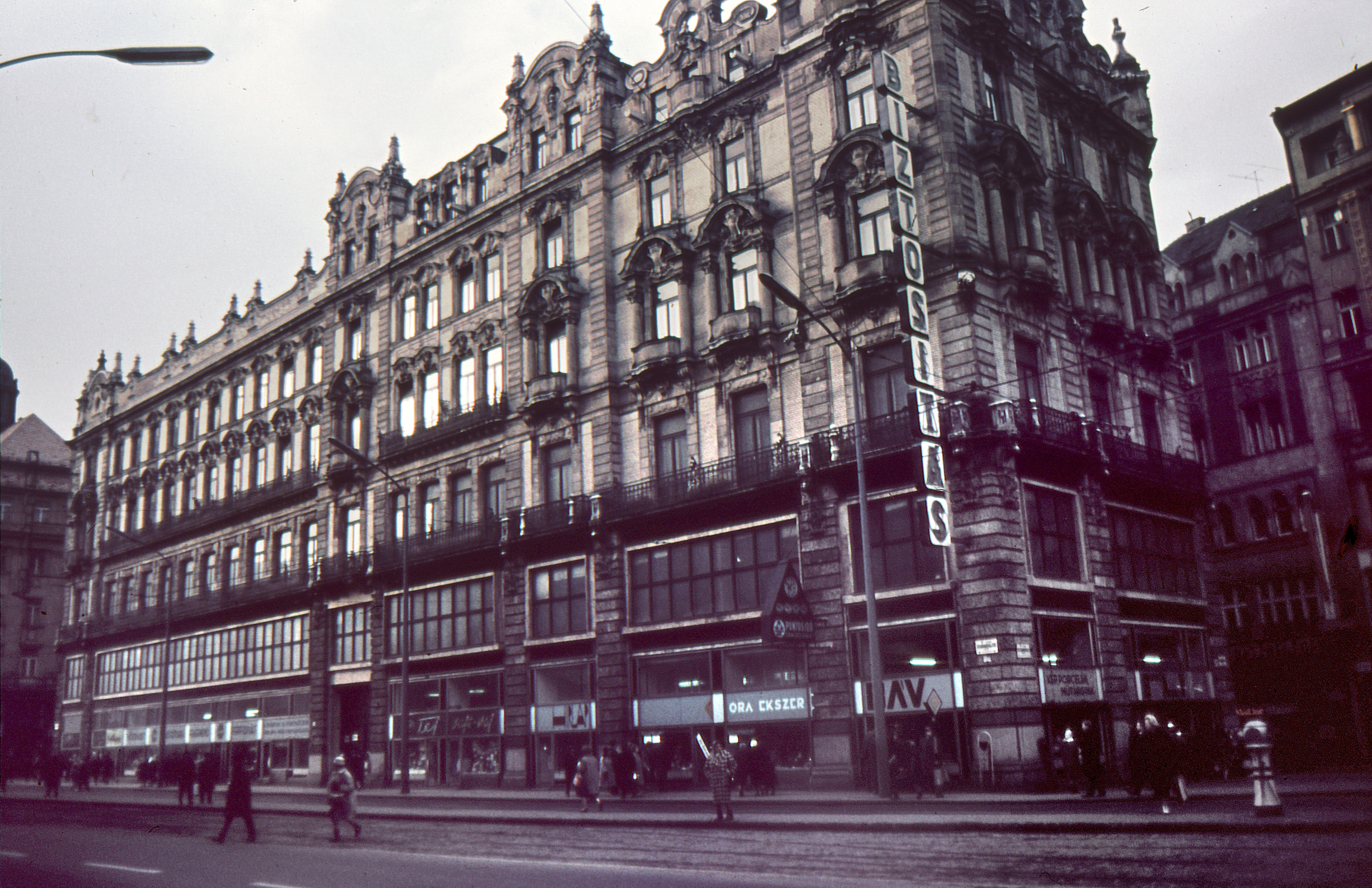 Hungary, Budapest, Franciscan Square and Klotild Palaces. Analog photo, ORWO UT 18 Chrome slide, and scan in day